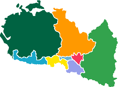 Subdivision of Lanzhou